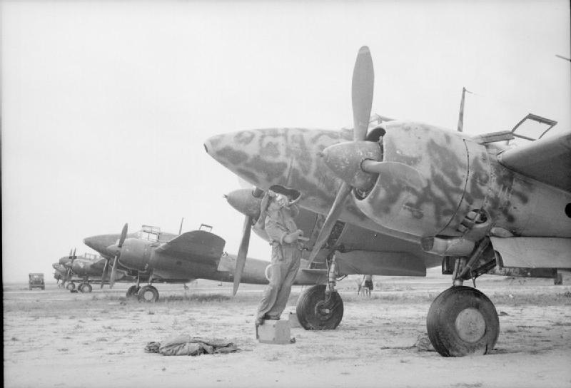 A Royal Air Force officer examining a Japanese Kawasaki Ki-45 Toryu fighter/ground attack aircraft (known to the Allies as a "Nick"). This was one of a number of aircraft abandoned at Kallang Airport, Singapore.